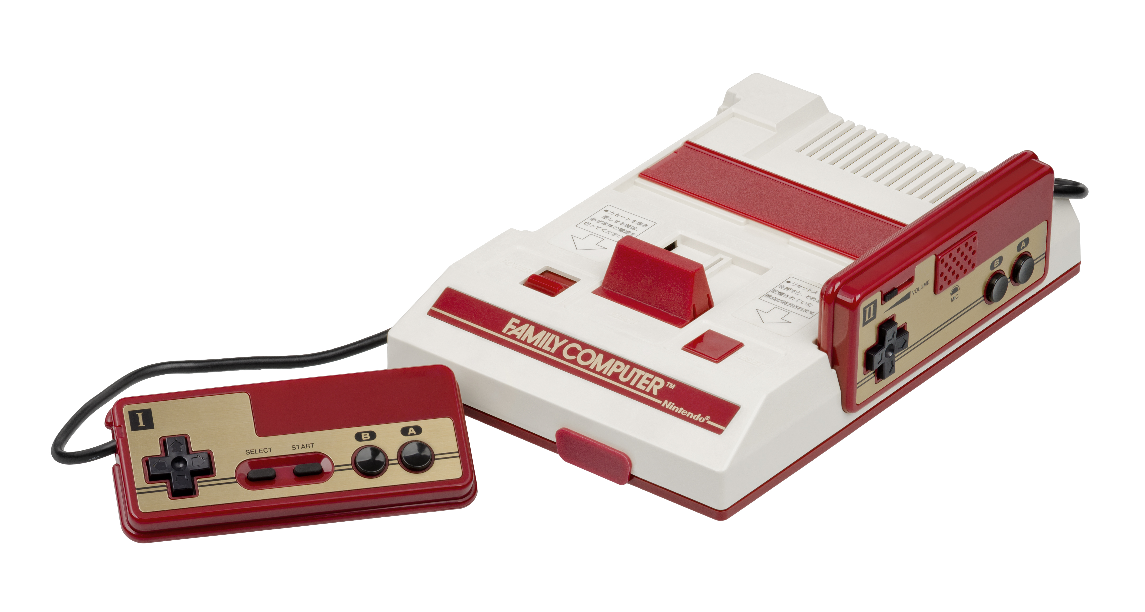 The Nintendo Famicom, a video game console released by Nintendo in Japan in 1983. The Famicom (short for "Family Computer") was Nintendo's first video game console, following the line of dedicated "Color TV Games" systems in the late '70s. The console was a success in Japan, emerging as the leader among a throng of rival systems from companies like Casio, Sega and Epoch. The system would sell over 19 million units in Japan in its lifetime, and released a variety of accessories like 3D glasses, a modem, a Basic/keyboard add-on and a disk drive.